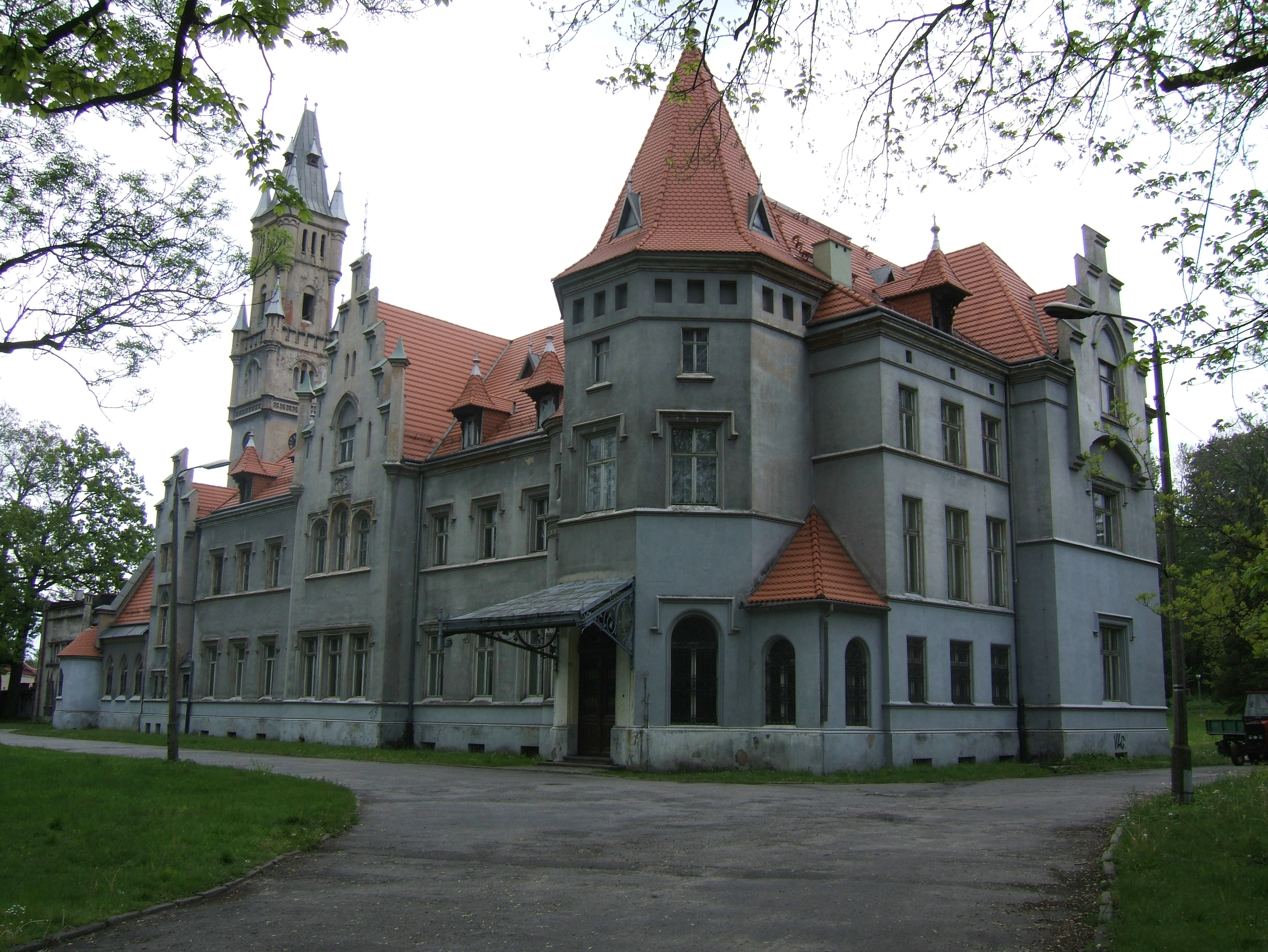 The front of the palace in Naklo (19th century)